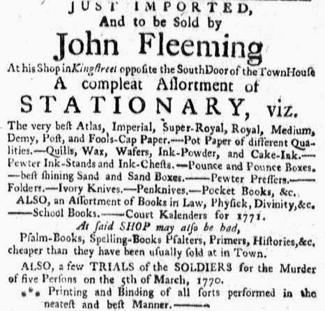 Newspaper item related to John Fleeming, King St., Boston, Massachusetts